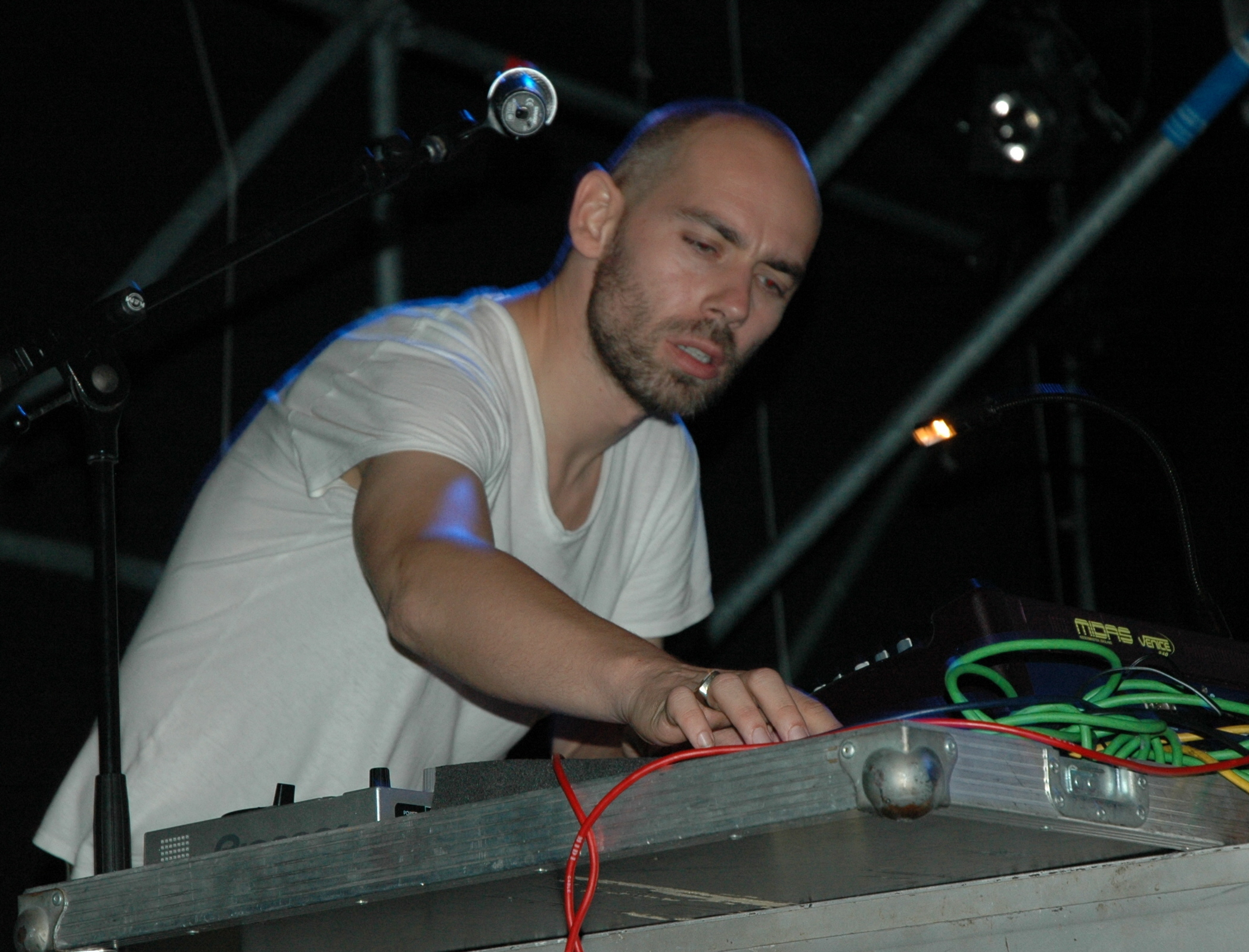 Austrian musician Wolfgang Schlögl (alias I-Wolf) at a concert of the "Sofa Surfers" on the "Open Air Ottensheim 2007", day one